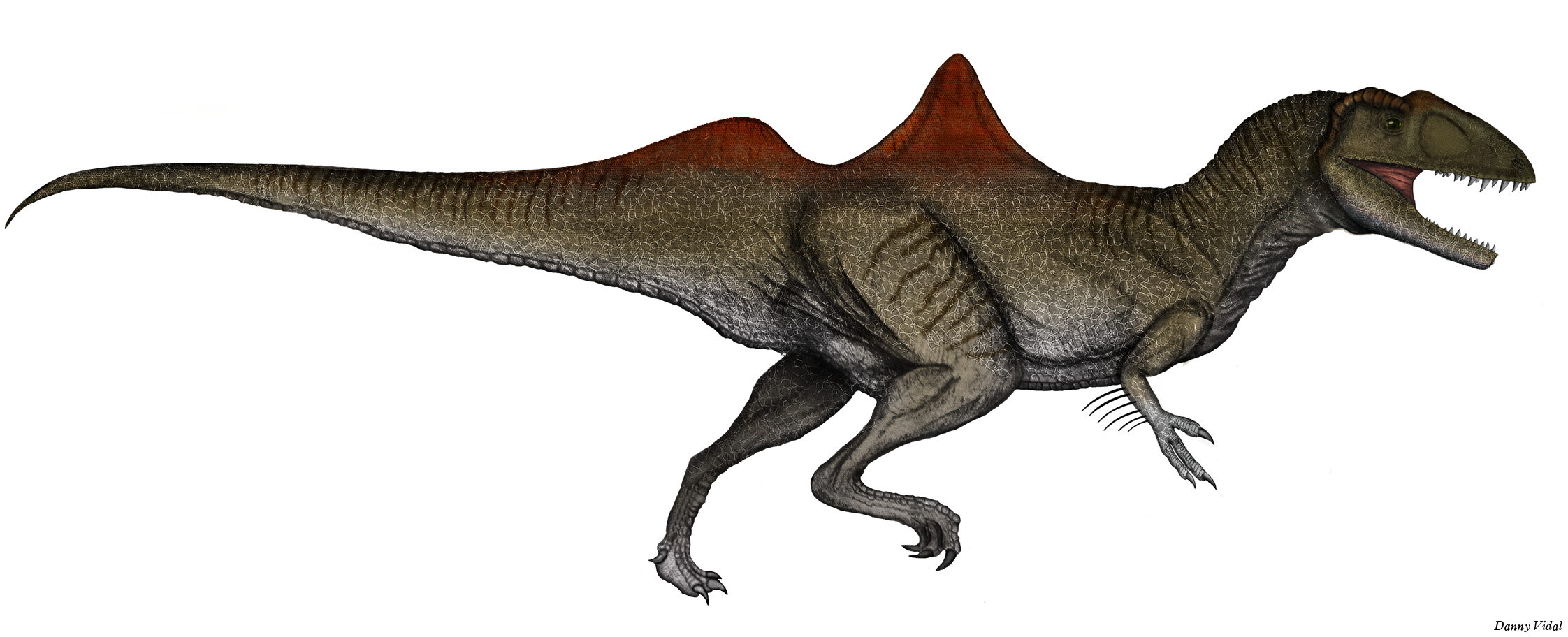 A reconstruction of the dinosaur Concavenator corcovatus combining freehand drawing with Photoshop editing for color and correction.